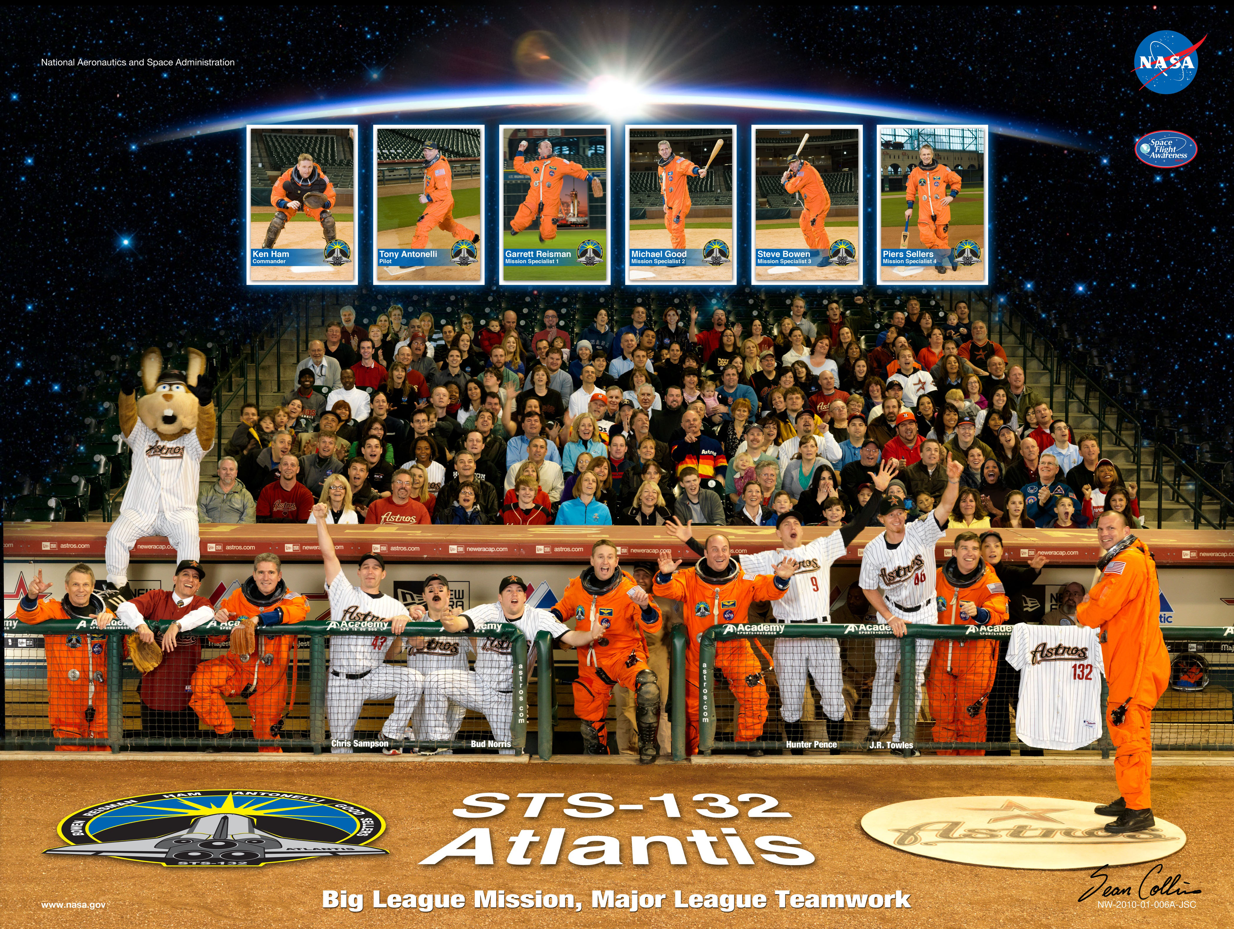 STS-132 mission poster Faces in the crowd: astronauts Mike Massimino (3rd row in the stands far left), Steve Swanson (to Massimino's right) , David Wolf (2nd row, dark jacket, left of center), JSC Director Mike Coats (2nd row, 2nd from left).